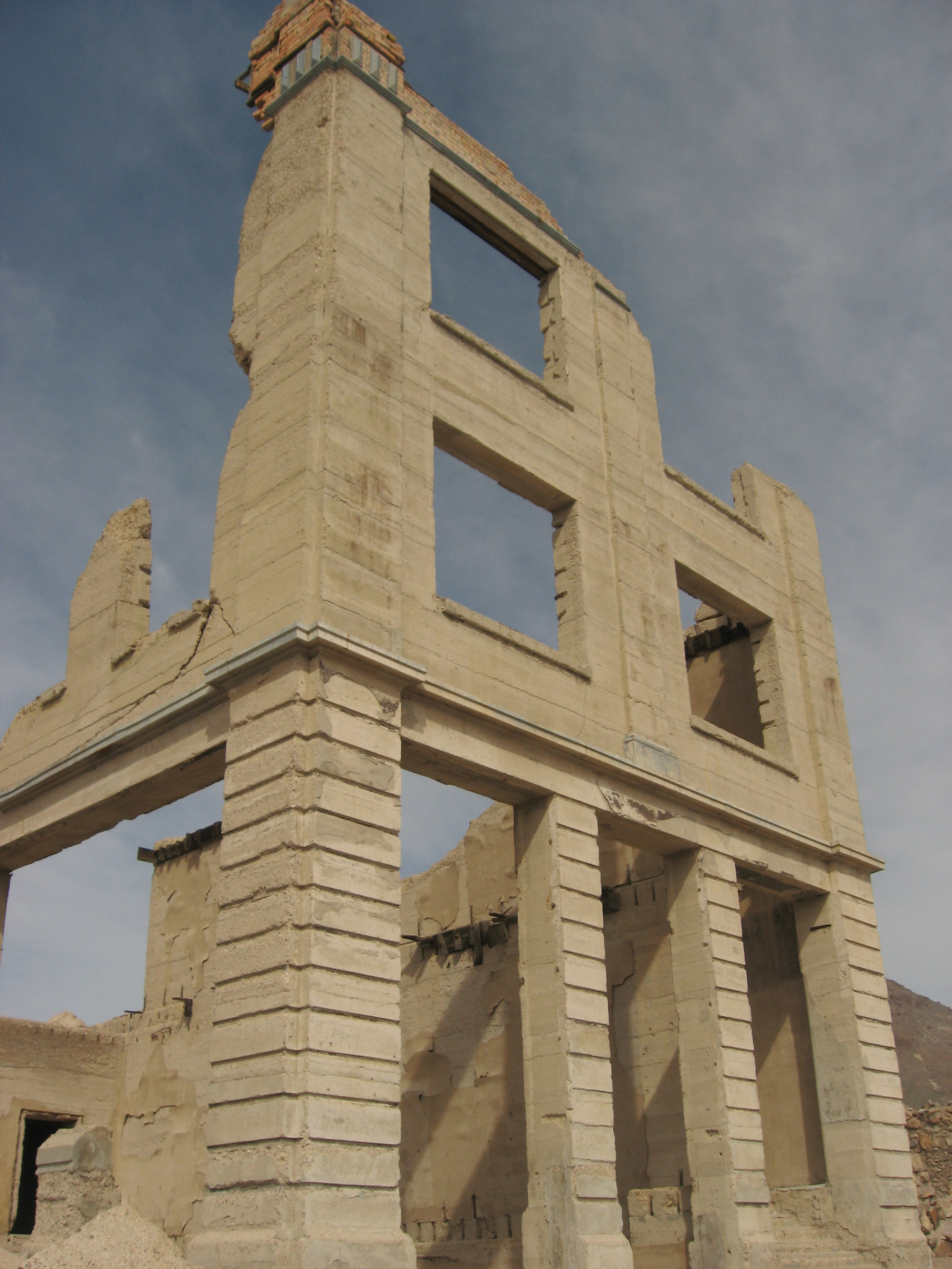 ruins of Cook Bank at Rhyolite ghost town, Nevada.